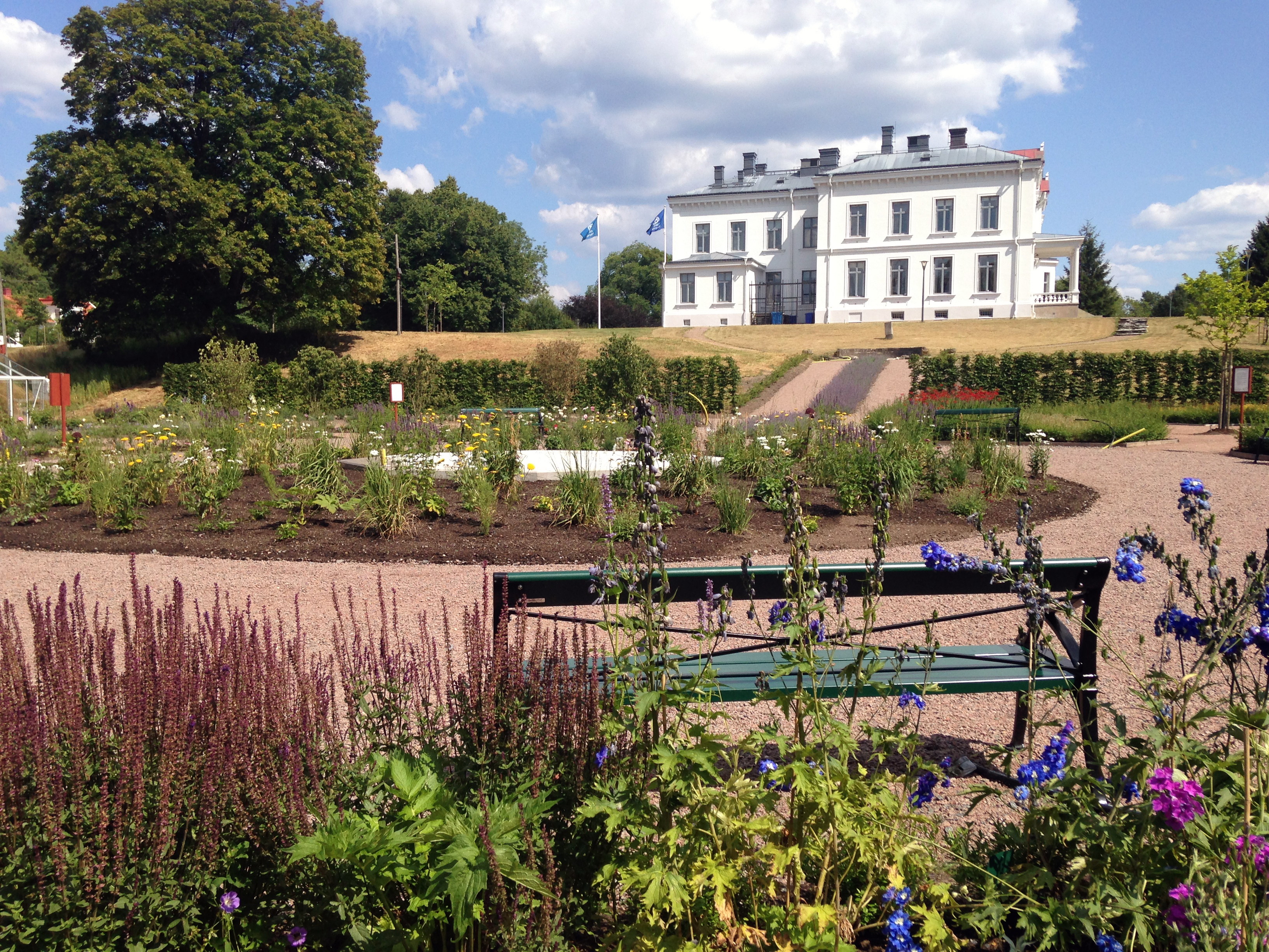 The manor at Jonsered, Partille, Sweden, 2014